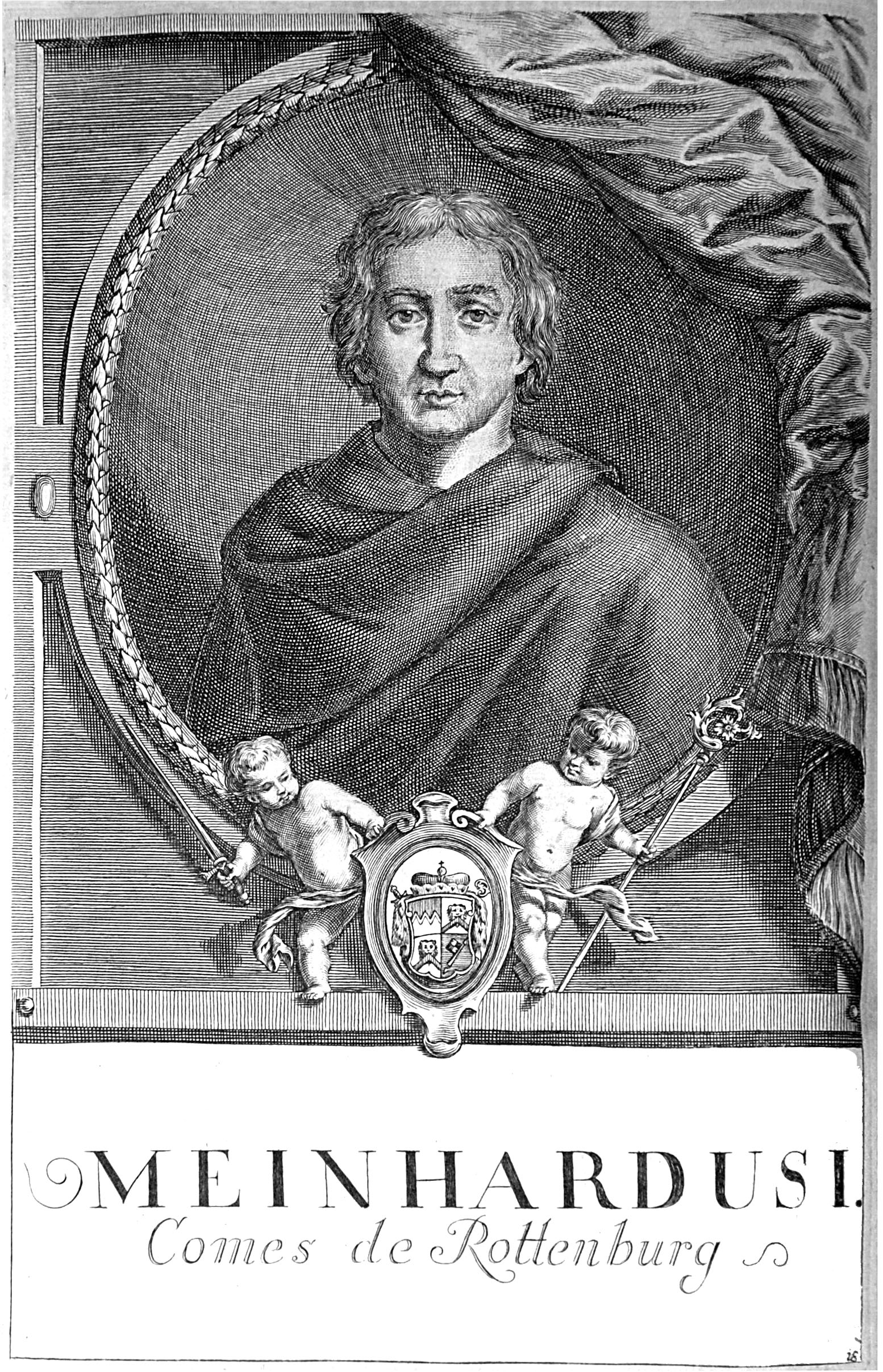 Meginhard I. 1018 to 1034 Bishop von Würzburg.